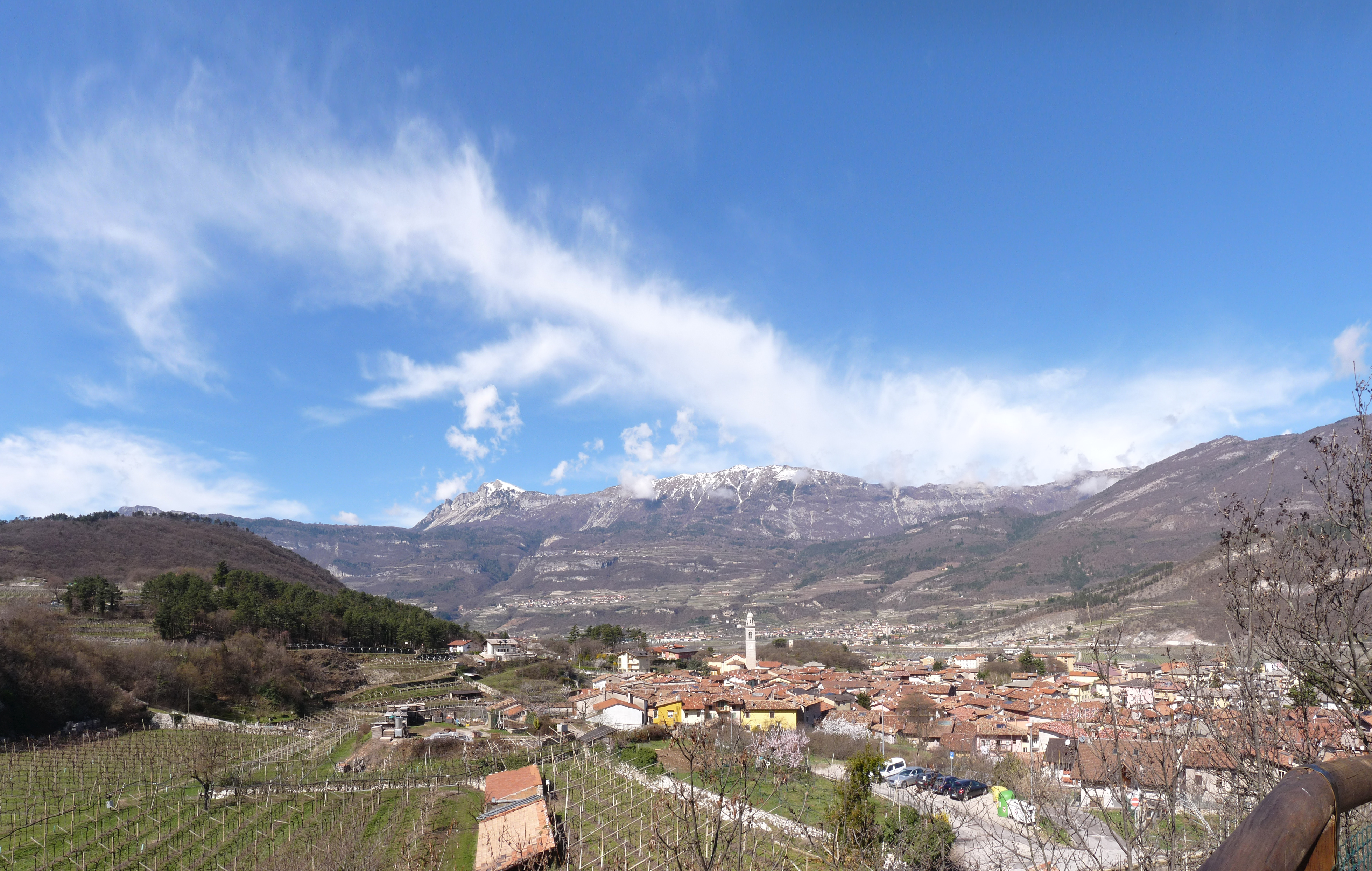 Volano (Italy): panorama from south-east